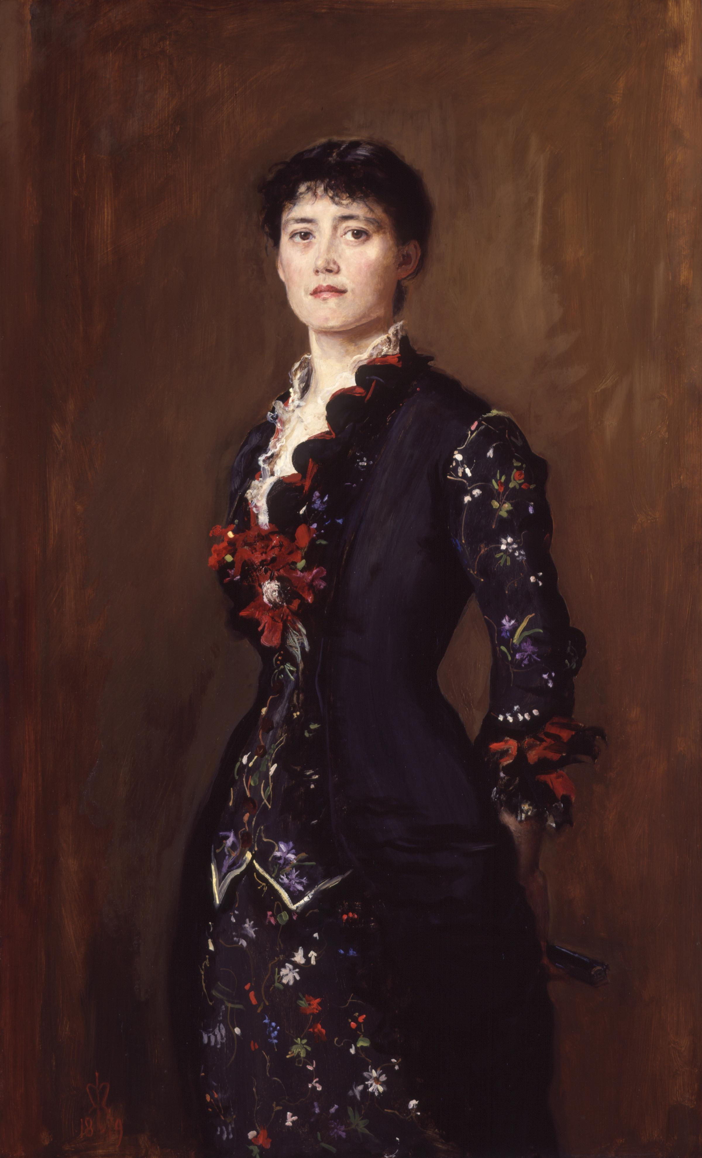 All images in this batch have been confirmed as author died before 1939 according to the official death date listed by the NPG.